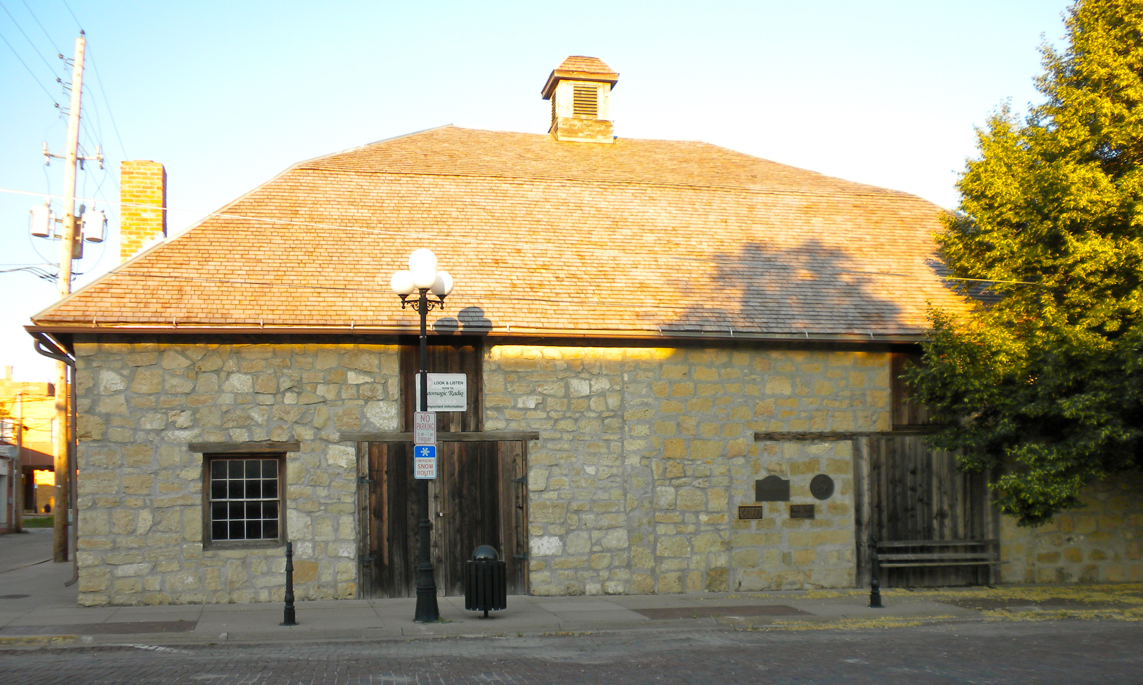 Marysville Pony Express Barn on NRHP since April 2, 1973. At 108 S. 8th St. Marysville, Kansas. About 2 counties away from St. Joseph, MO (the starting point of the Pony Express), this station is called something like "Home Station No. 1" and is a very solid building. Many other Pony Express stations exist, but this one has not been moved from its original location and appears to be very important in the overall Pony Express scheme of things.